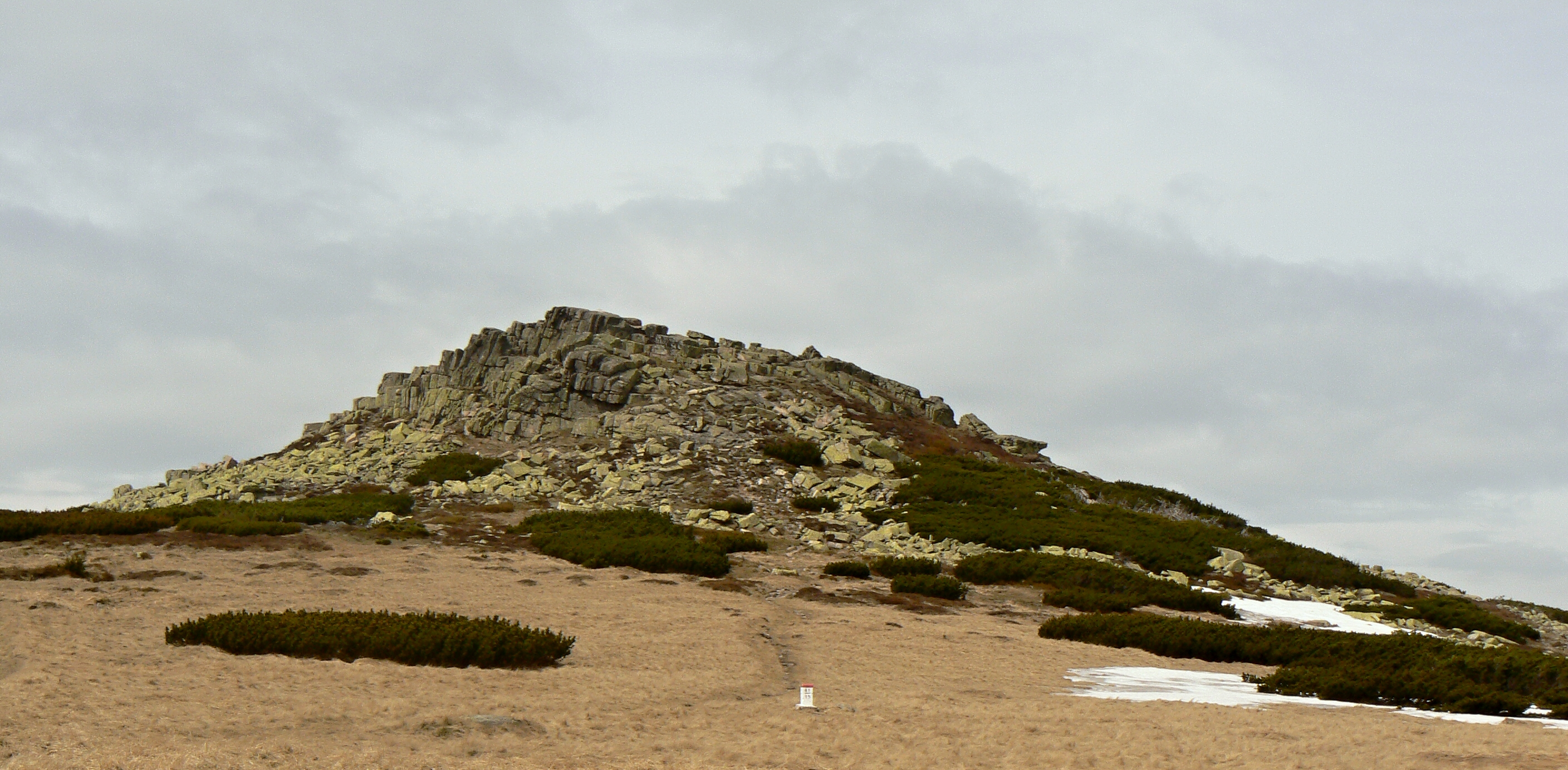 Violík Peak on the border between Czech Republic and Poland, Krknoše (or Giant Mountains) national park